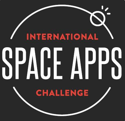 One of the logos created for the International Space Apps Challenge, NASA's Global Hackathon